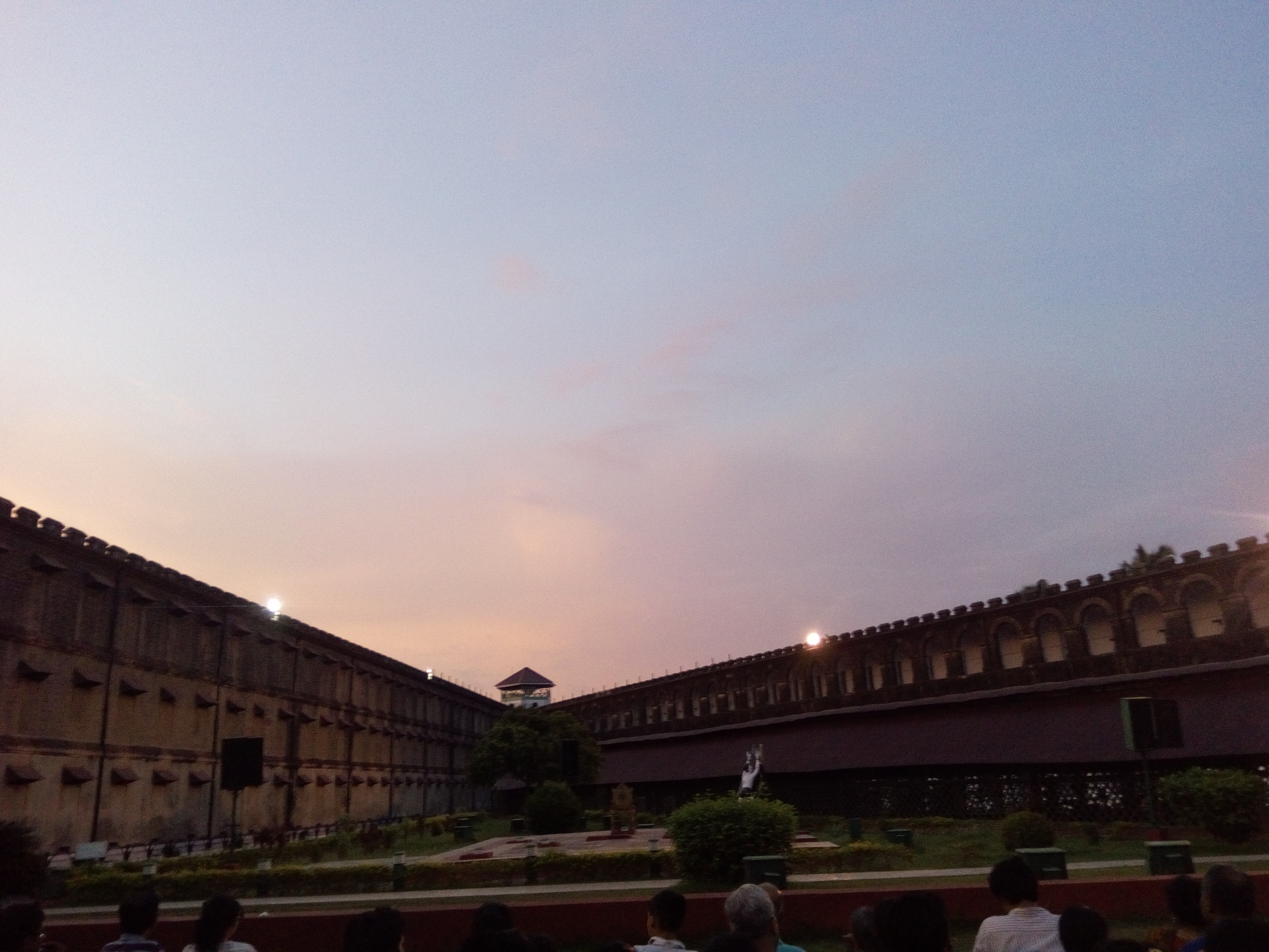 Kalapani is the nick name of cellular jail andaman